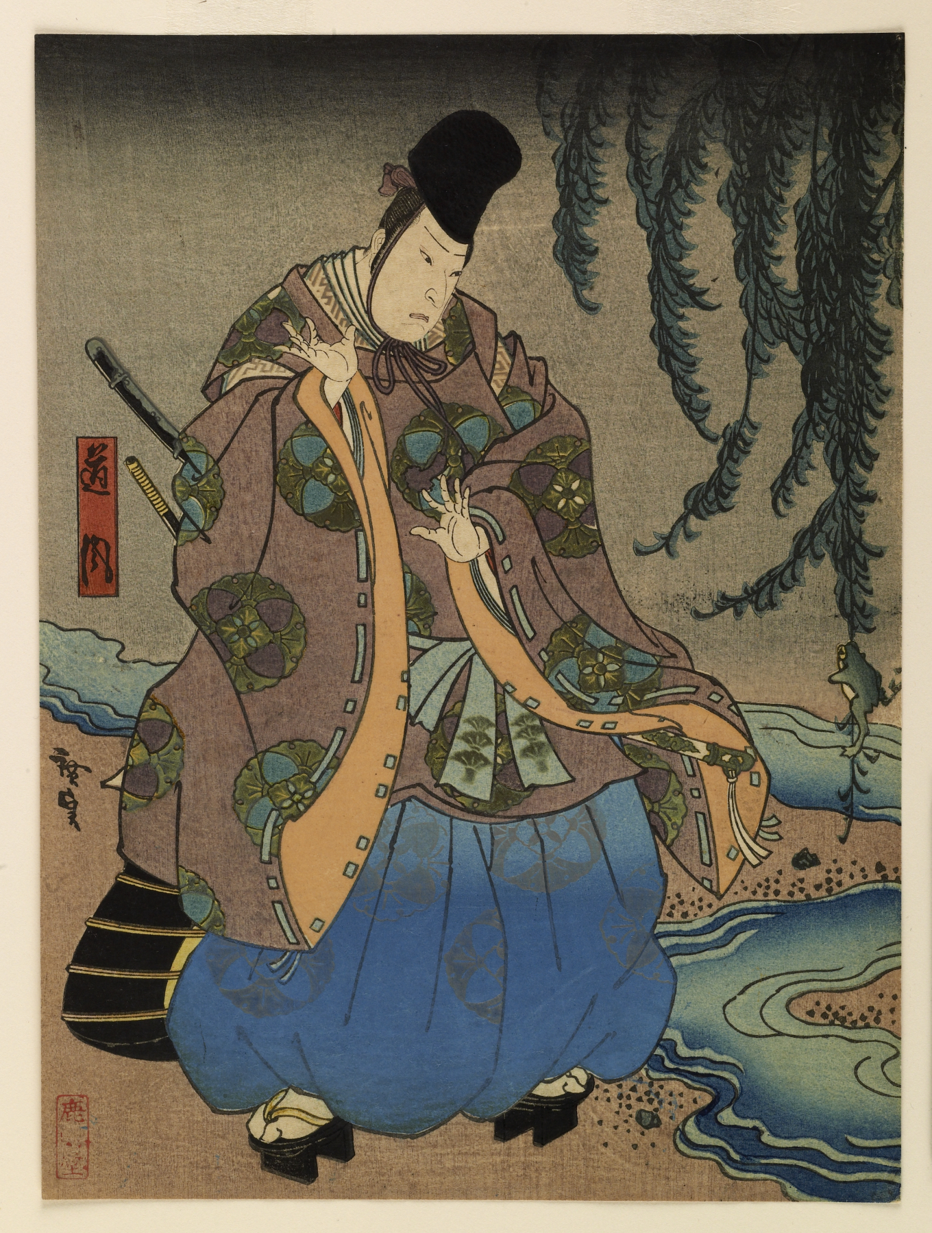 Ono no Tofu, a 10th-century calligrapher and statesman, seven times failed to achieve promotion at the imperial court. Leaving the palace one day, he noticed a frog attempting to leap up to the branch of a willow tree. Seven times the frog leaped; seven times it failed. On the eighth try it succeeded, and Ono no Tofu took heart, embarking on his illustrious career and serving in later centuries as a model for schoolchildren learning to write.